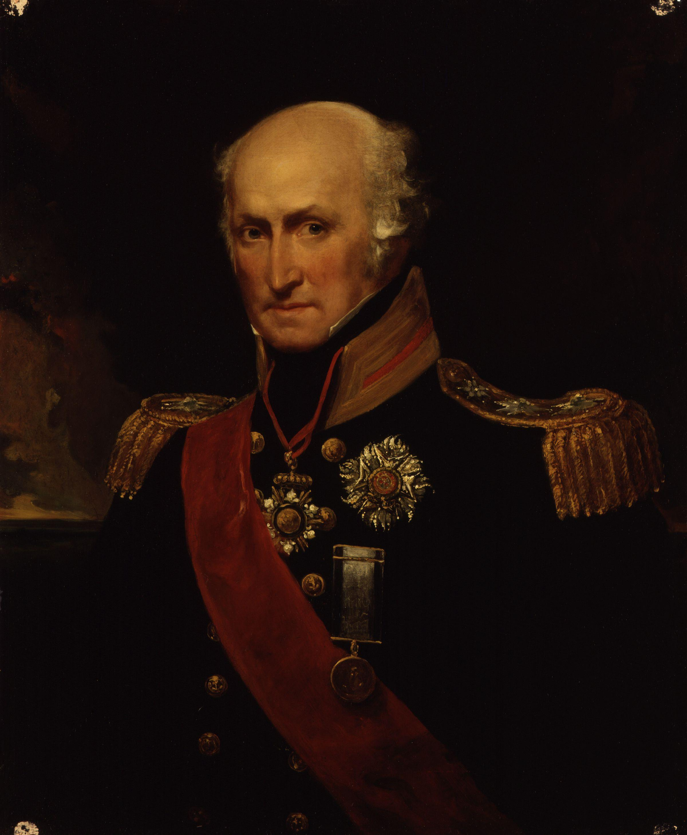 Sir Benjamin Hallowell Carew, by John Hayter (died 1895), given to the National Portrait Gallery, London in 1873. All images in this batch have been confirmed as author died before 1939 according to the official death date listed by the NPG.